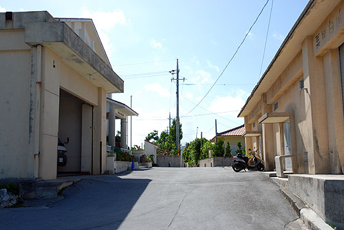 Okinawa Prefectural Road 188